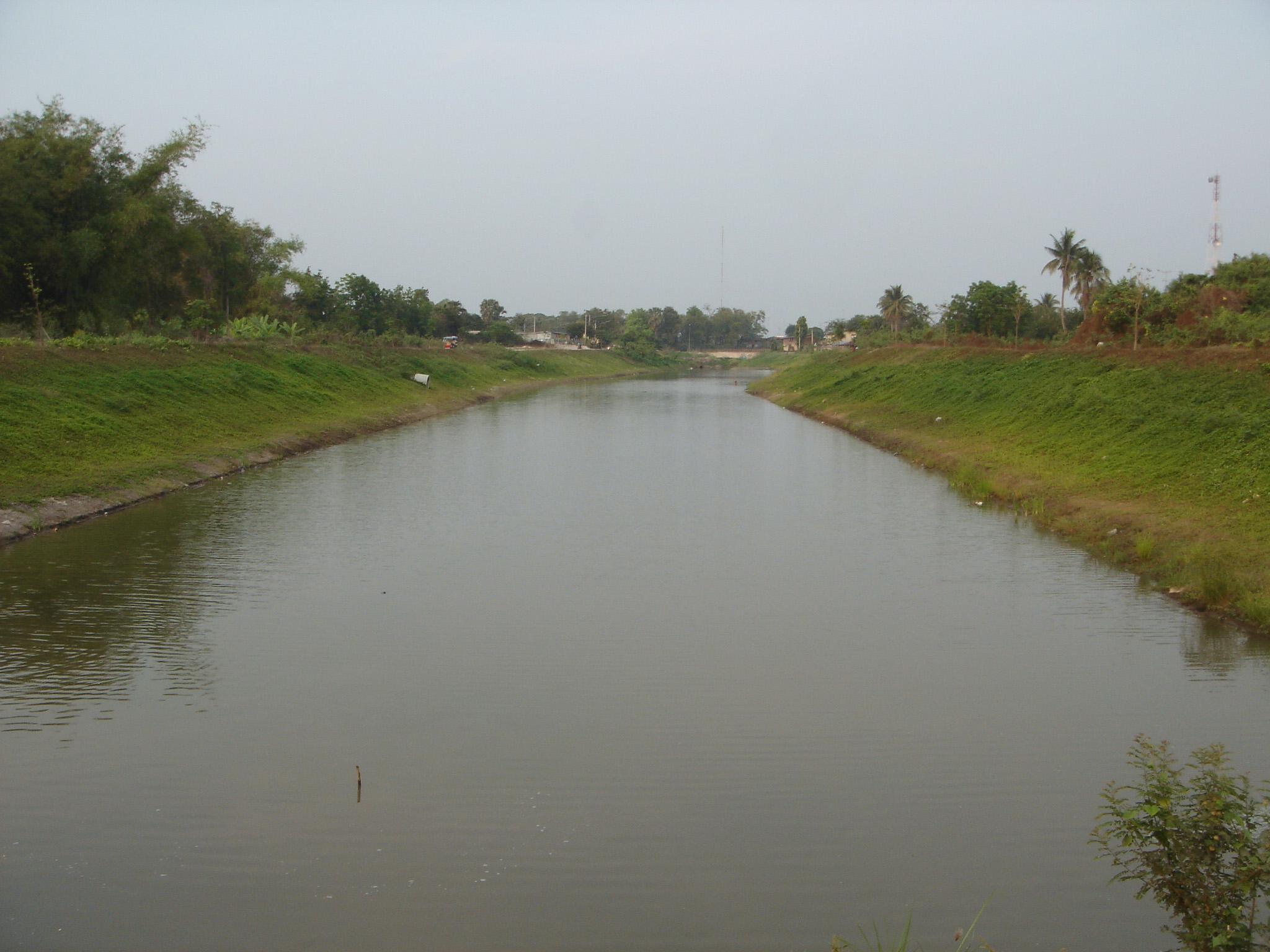 Ancient city moat, Amphoe U Thong, Suphanburi